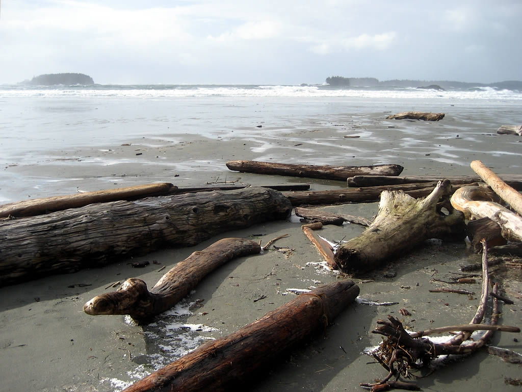 Draftwood on Chesterman Beach, Tofino, BC.